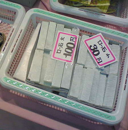 Japanese traditional writing instrument